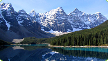 Banff National Park, Canada